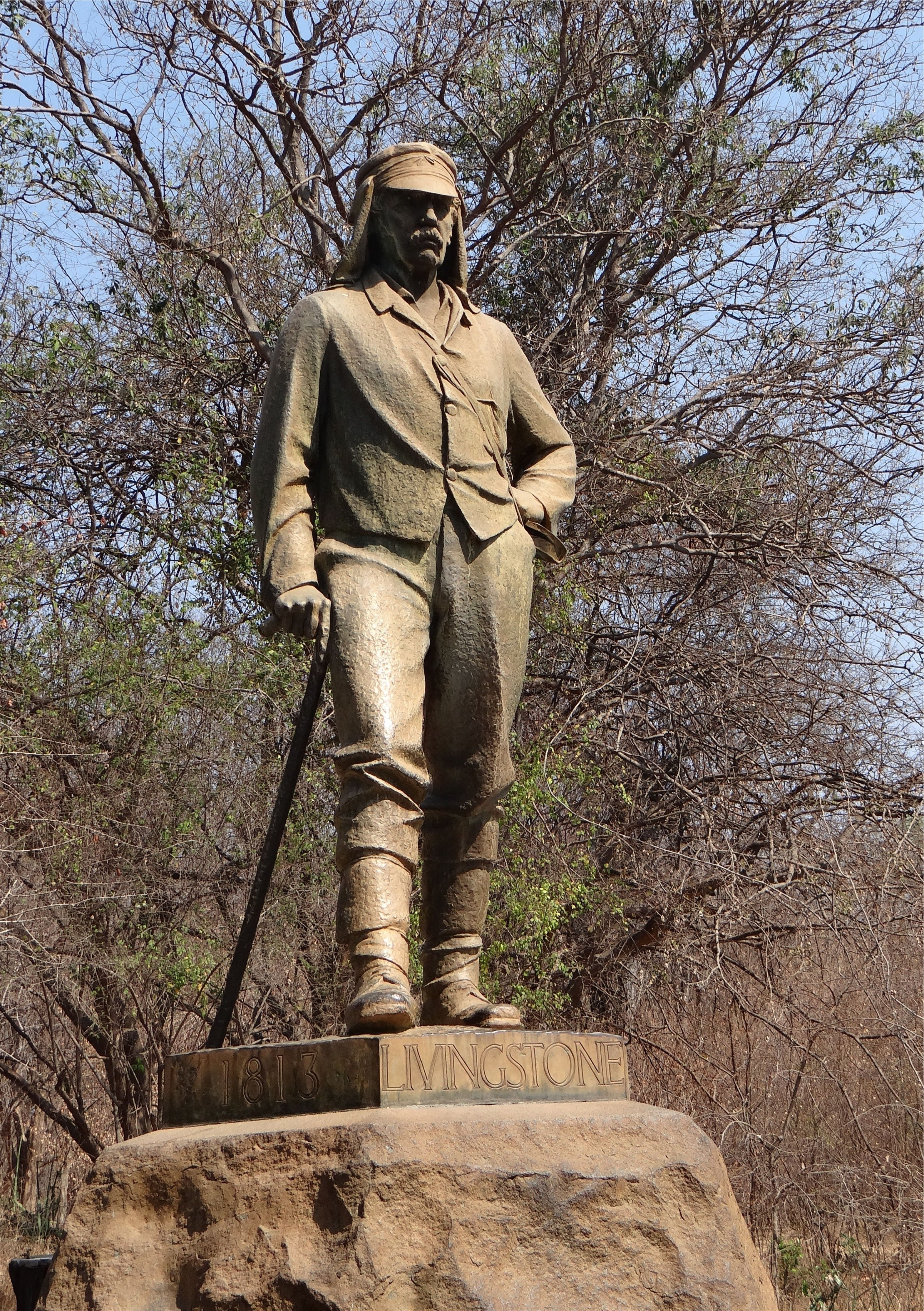 Statue of David Livingstone at Victoria Falls National Park, Zimbabwe.